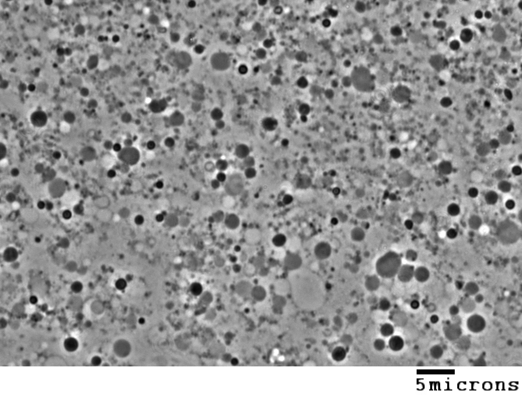 Phase contrast image of L-form (cell wall deficient) bacteria derived from Bacillus subtilis.